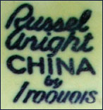 Iroquois China Company - Russel Wright - c.1950